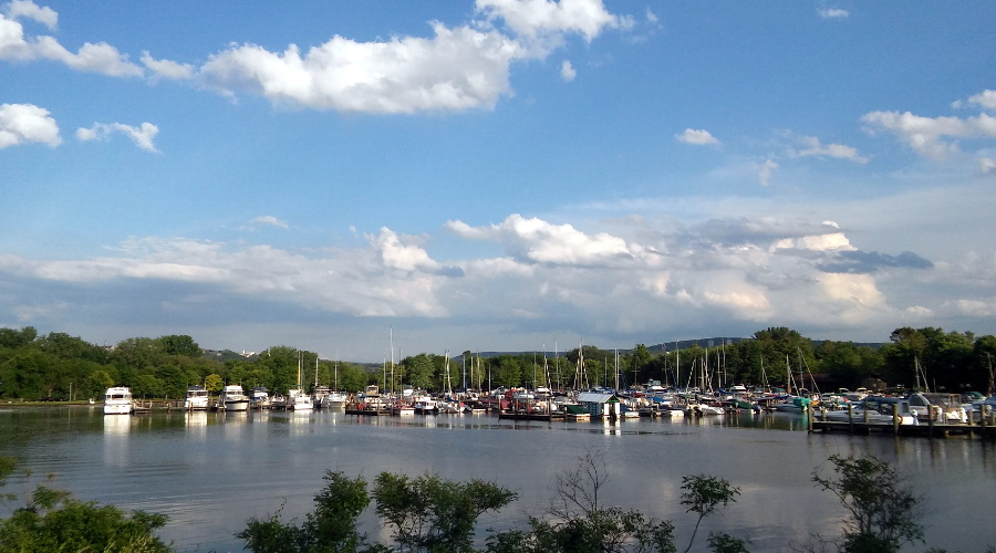 The marina connects to the south end of Cayuga Lake via the lake inlet.